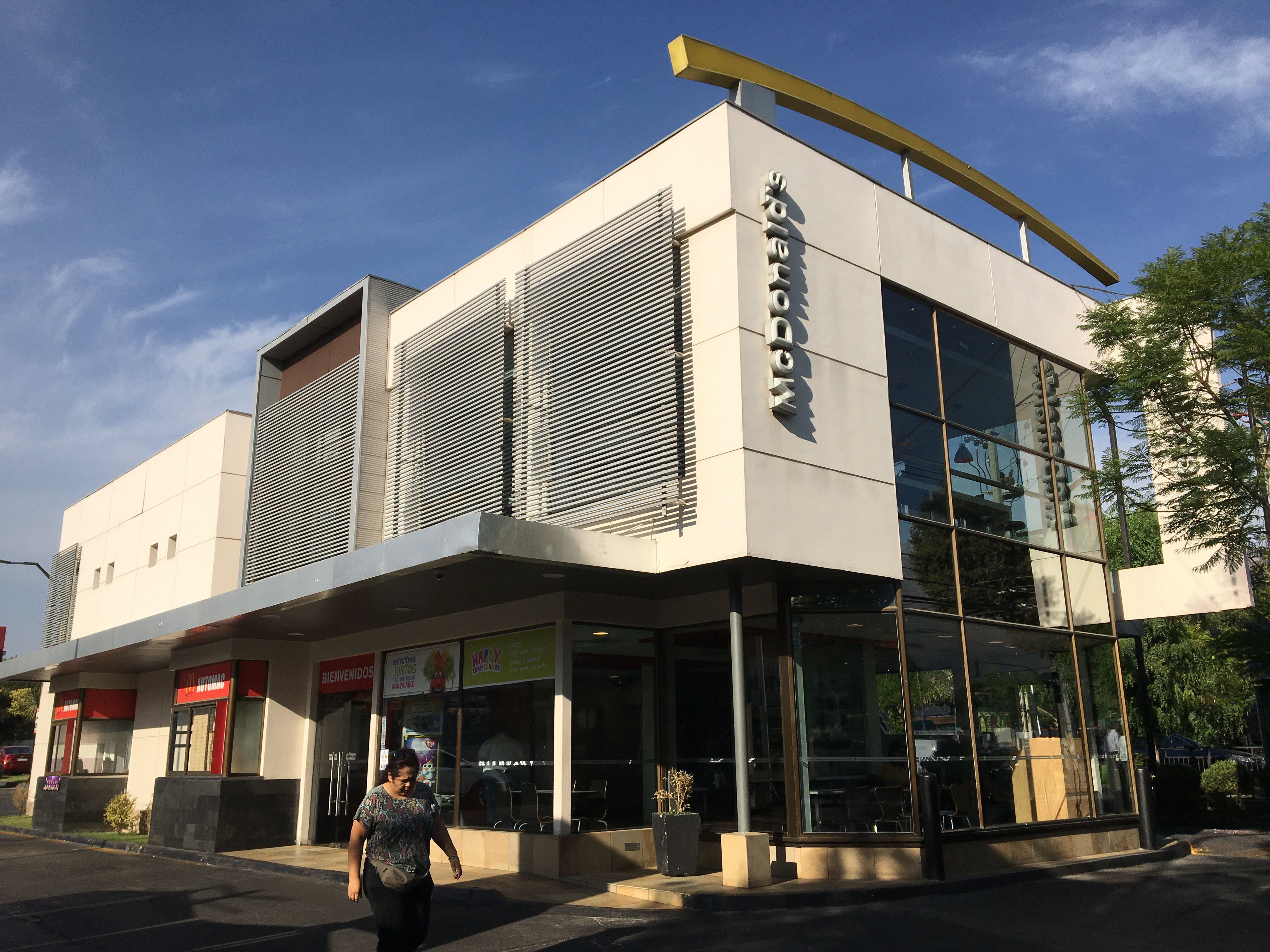 McDonalds in La Reina, Chile